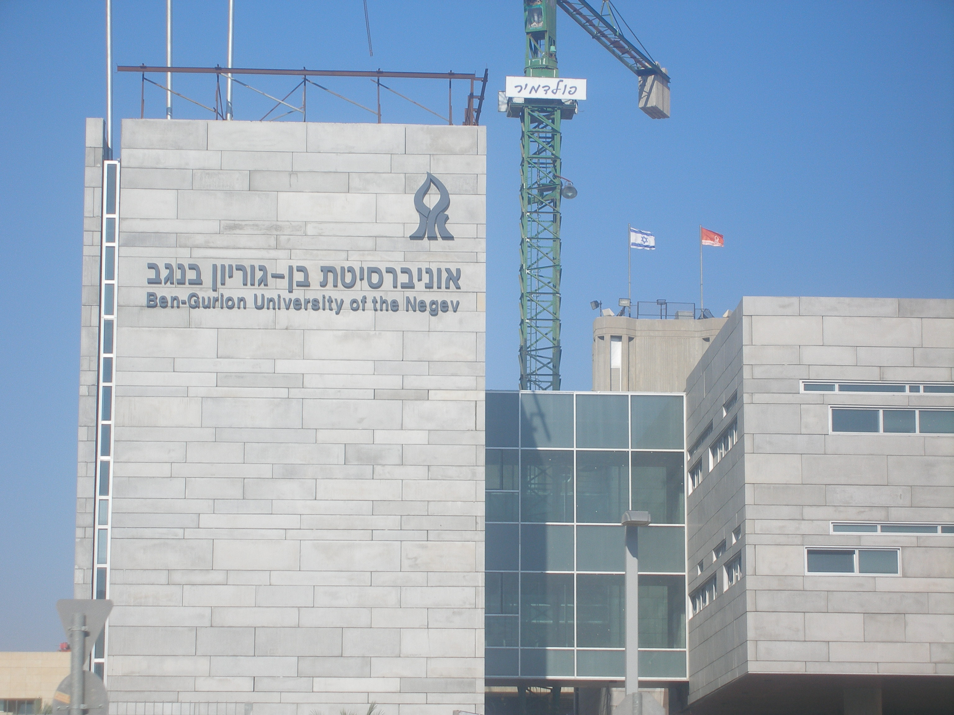 Ben-Gurion University of the Negev, israel